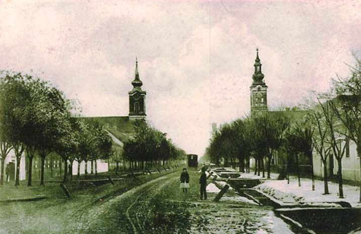 Šove (Ravno Selo) village, street and Protestant churches in 1925.